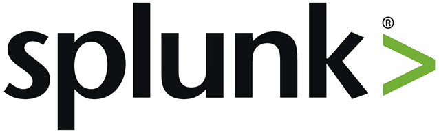 Splunk logo